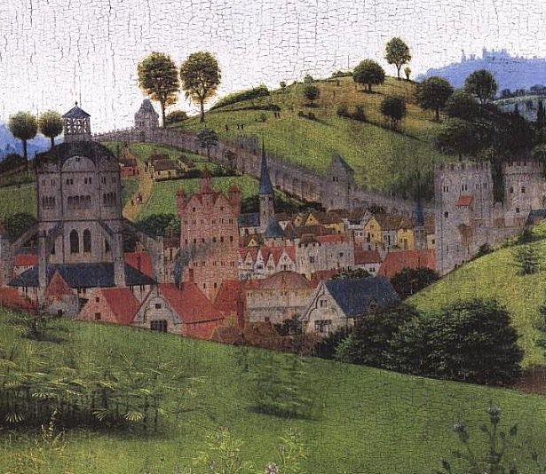 Detail of Petrus Christus c. 1460 Nativity showing background landscape and Netherlandish town